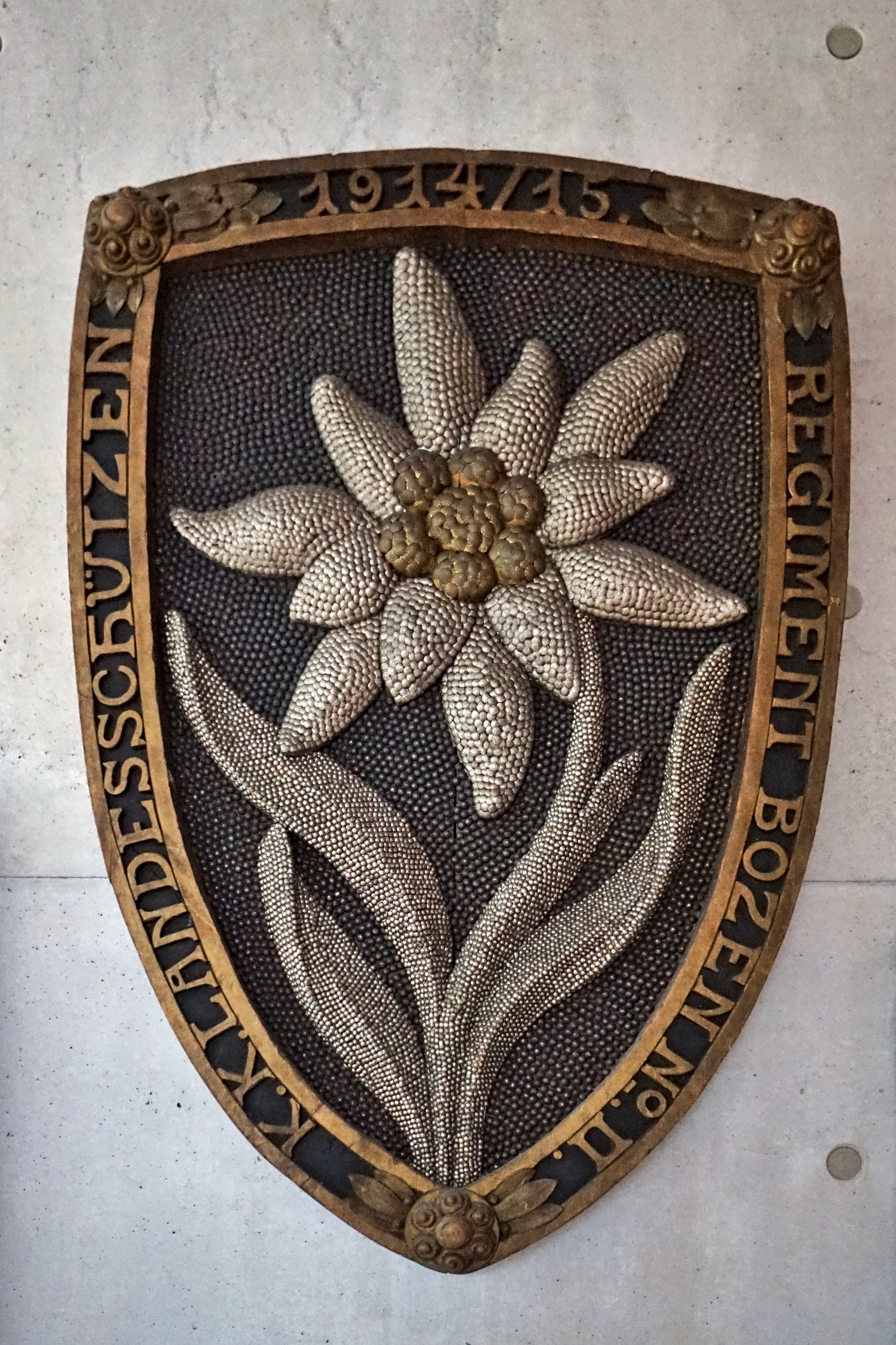 Eisernes Edelweiß